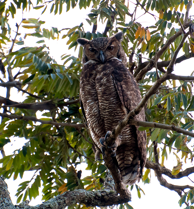 A Great Horned Owl in Extrema, Minas Gerais, Brazil.